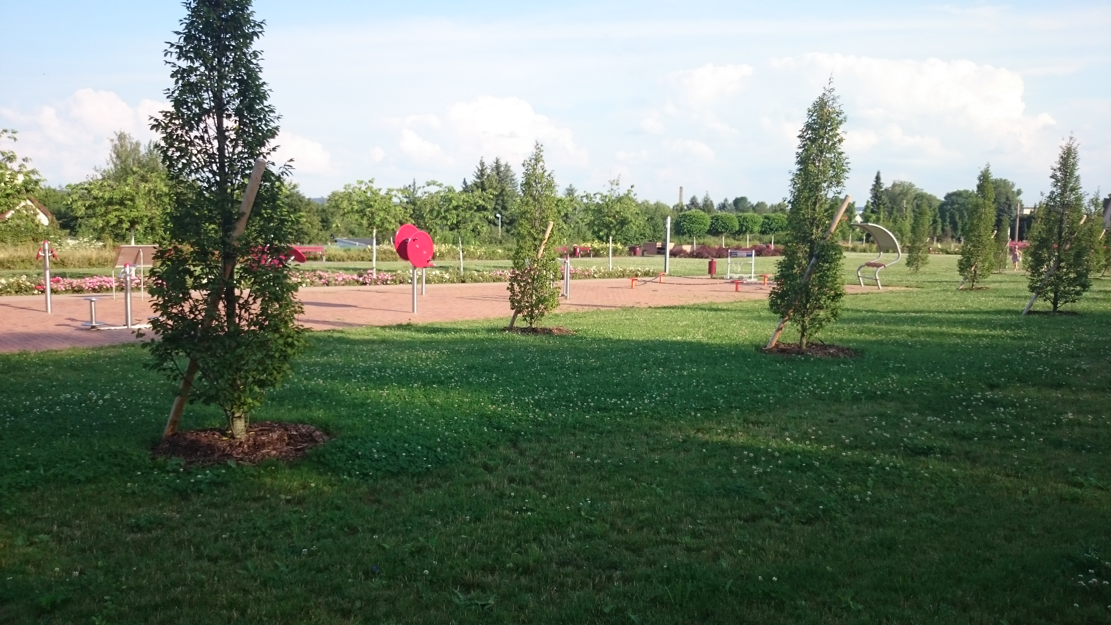 Town park of Category:Lugau/Erzgeb.